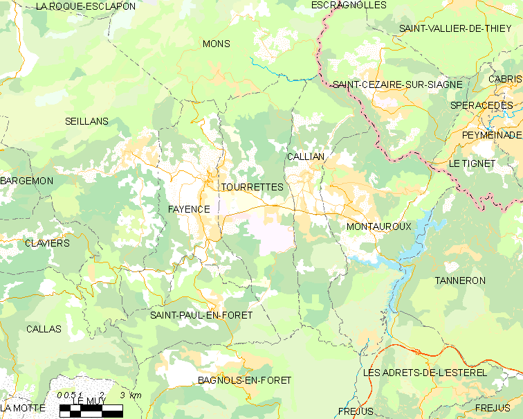 Map of French municipality Tourrettes